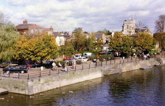 Twickenham riverside A view of the Embankment at Twickenham seen from the footbridge to Eel Pie Island.